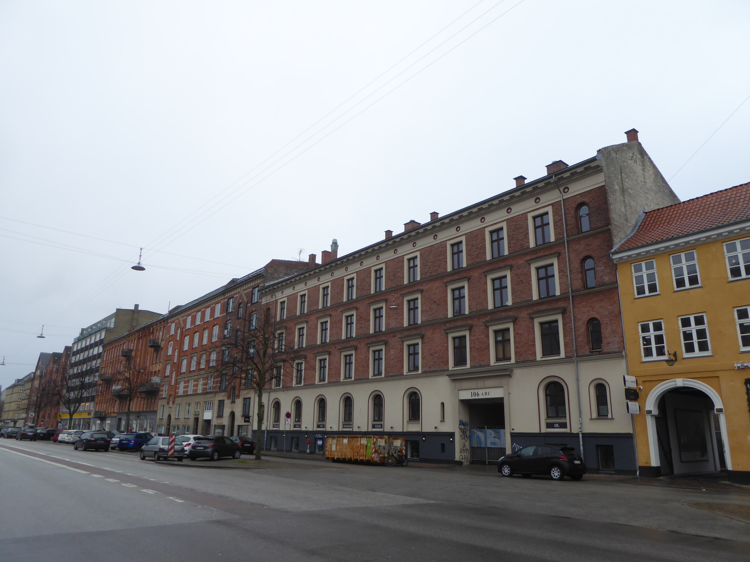 Apartment buildings at Blegdamsvej in Østerbro in Copenhagen. At the right the housing cooperative A/B Blegdamsvej 106 A-C